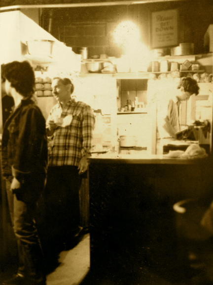 Irv Ciski at The Last Exit on Brooklyn in Seattle taken (with permission from Irv) by one of his waiters. Circa 1983-1985.